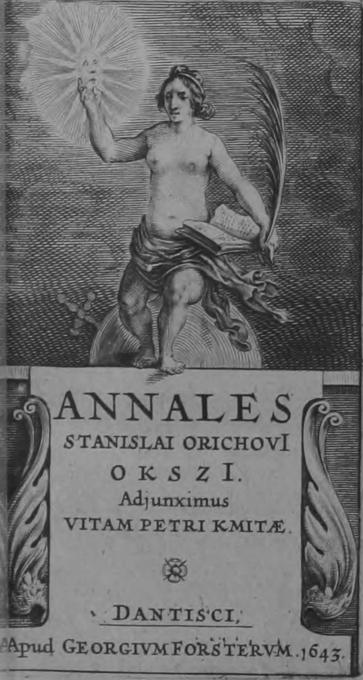 Front page of Annales, Gdańsk 1643 edition